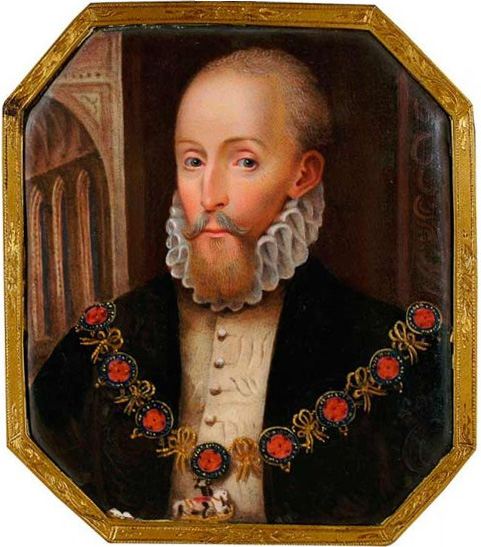 Henry Carey, son of Mary Boleyn, cousin of Queen Elizabeth I and first Baron Hunsdon